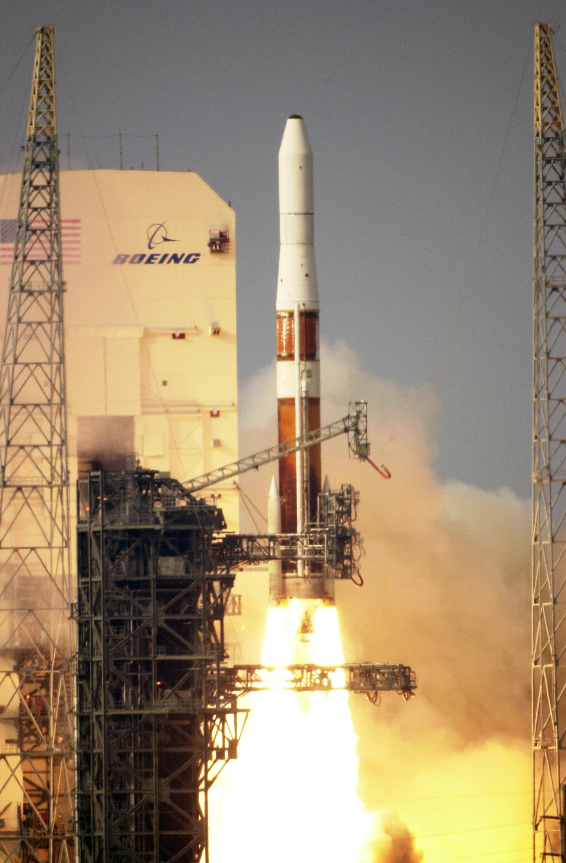 KENNEDY SPACE CENTER, FLA. – Spewing fire and smoke, the Boeing Delta IV rocket roars off the launch pad to lift the GOES-N satellite on top into space. Liftoff from Launch Complex 37 at Cape Canaveral Air Force Station was on time at 6:11 p.m. EDT. GOES-N is the latest in the Earth-monitoring series of Geostationary Operational Environmental Satellites developed by NASA and the National Oceanic and Atmospheric Administration. By maintaining a stationary orbit, hovering over one position on the Earth's surface, GOES will be able to provide a constant vigil for the atmospheric "triggers" for severe weather conditions such as tornadoes, flash floods, hail storms and hurricanes.